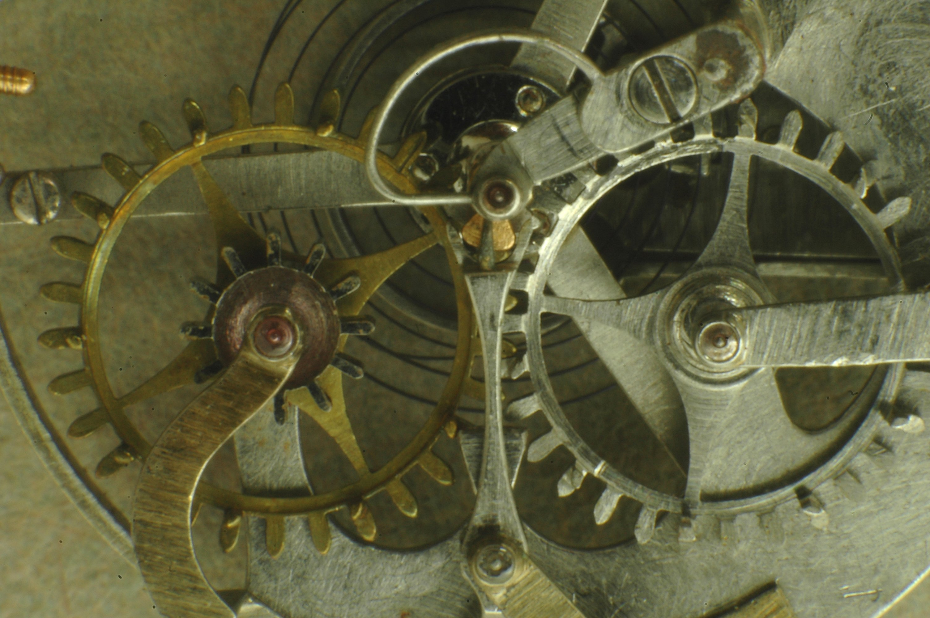 View of the under side of the escapement platform of Breguet watch number 1135 showing the two geared escape wheels of the Echappement Naturel